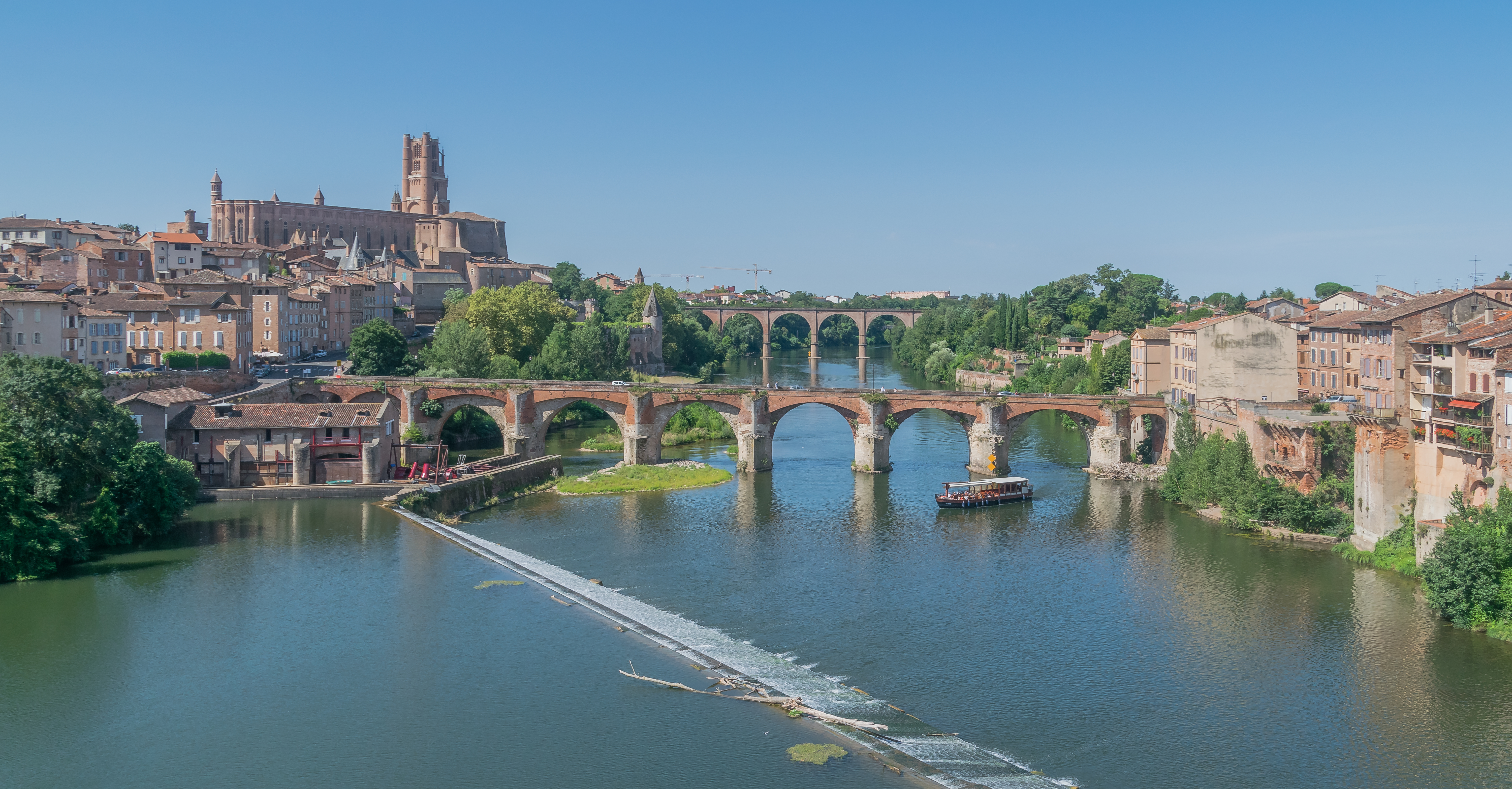 Vieux Pont and Saint Cecilia Cathedral of Albi, Tarn, France This place is a UNESCO World Heritage Site, listed as Cité épiscopale d'Albi.